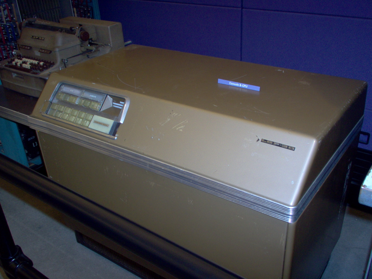 Librascope LGP-30 (1956). Among the first desk-sized computers.